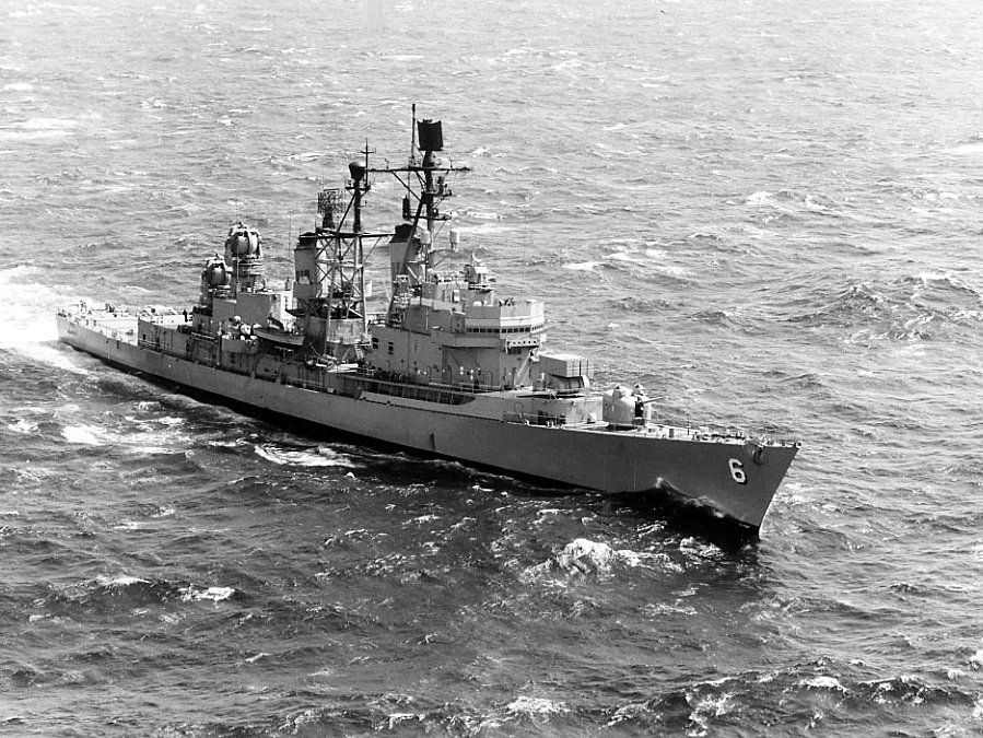 The U.S. Navy guided missile destroyer USS Farragut (DLG-6) steams toward Copenhagen, Denmark, on 22 June 1967.